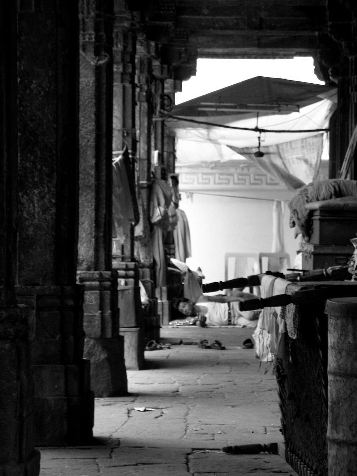 Rani no hajiro is a 15th century mausoleum for the queens of Sultan Ahmed Shah (the eponymous founder of Ahmedabad) and the queens of subsequent rulers. The graves are in a centre courtyard surrounded by a cloister, which is separated from the outside by gorgeously carved stone screens, joint to form walls. The graves are covered with lengths of rich brocade, in keeping with the flourishing textile history of Ahmedabad. Brocade weaving was introduced to Gujarat by Ahmed Shah and woven into the already rich textile traditions of India. Brocade weaving eventually spread to the rest of India and even Varanasi which is known for its brocade fabrics owes much of its fame to weavers who migrated there from Gujarat. The open-air centre courtyard is atypical, but is supposedly built in conformity with the wishes of Ahmed Shah's queen. Normally there is a centre dome under which lie the graves, surrounded by an enclosed cloister/ambulatory/veranda, and the structure is elevated above ground level. The intricate stone tracery and carving in an amalgamated Hindu, Jain, and Islamic style seen here and in temples/mosques all over Gujarat are typical and stunning examples of Gujarati architecture. While poor Muslim families live in the porticoes outside the screen separating the cloister and inner courtyard, the inner courtyard is kept locked up unless someone like me badgers the family that takes care of it to open it up. For five generations this family has been taking care of the place and ensuring that it remains mostly clean, even though they themselves live in absolutely appalling conditions. Incidentally, the caretaker family live across the lane in a different building.